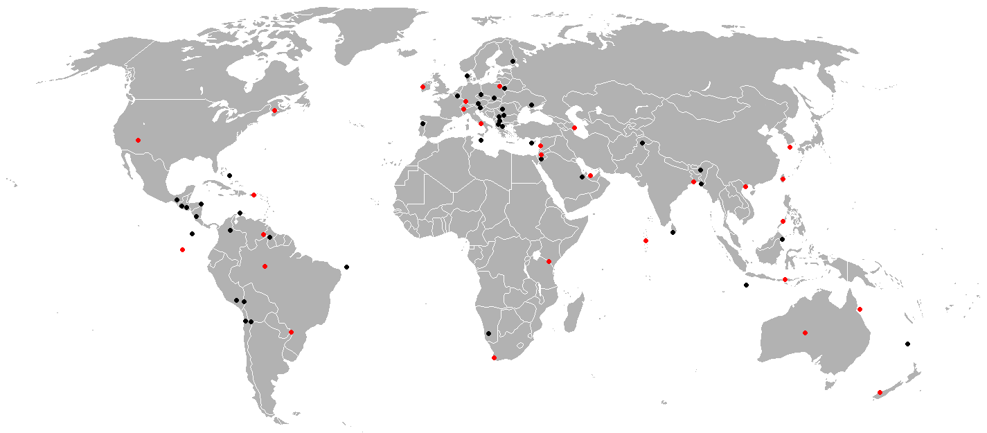 Map of New7Wonders of Nature finalists and reserves.